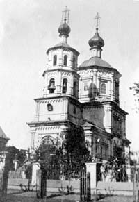 Smolensko-Dmitriev church in Jagodnaya Sloboda in Kazan. Destroyed after 1917.